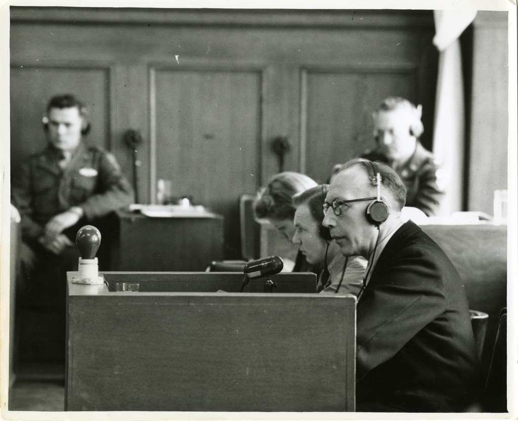 Prosecution witness Karl Josef Ferber sits on the witness stand at the Nuremberg Trials (Judges’ Trial)